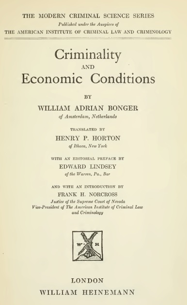 Criminality and Economic Conditions 1916 Cover